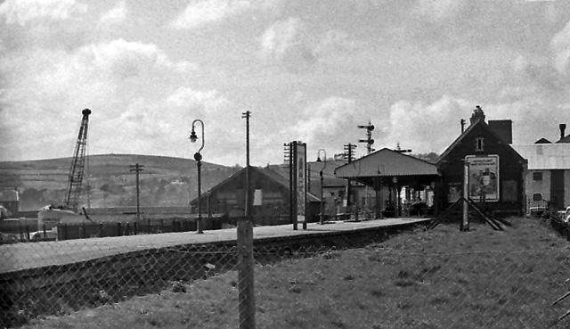 Barnstaple Town Station. View NW, towards Ilfracombe; ex-London & South Western, Exeter - Barnstaple Junction - Ilfracombe line (closed 5/10/70). The ex-Great Western line from Taunton (closed 3/10/66) ran to Barnstaple (Victoria Road) (see SS5632 : Barnstaple (Victoria Road) Station. GW trains running through to Ilfracombe joined the SR just south of Barnstaple Town station, until the direct line avoiding Victoria closed in 1939, after which they had to reverse in Victoria Road. (Should be deleted. It is side reversed and had been replaced by the originator with File:Barnstaple Town Station geograph-2373521-by-Ben-Brooksbank.jpg)